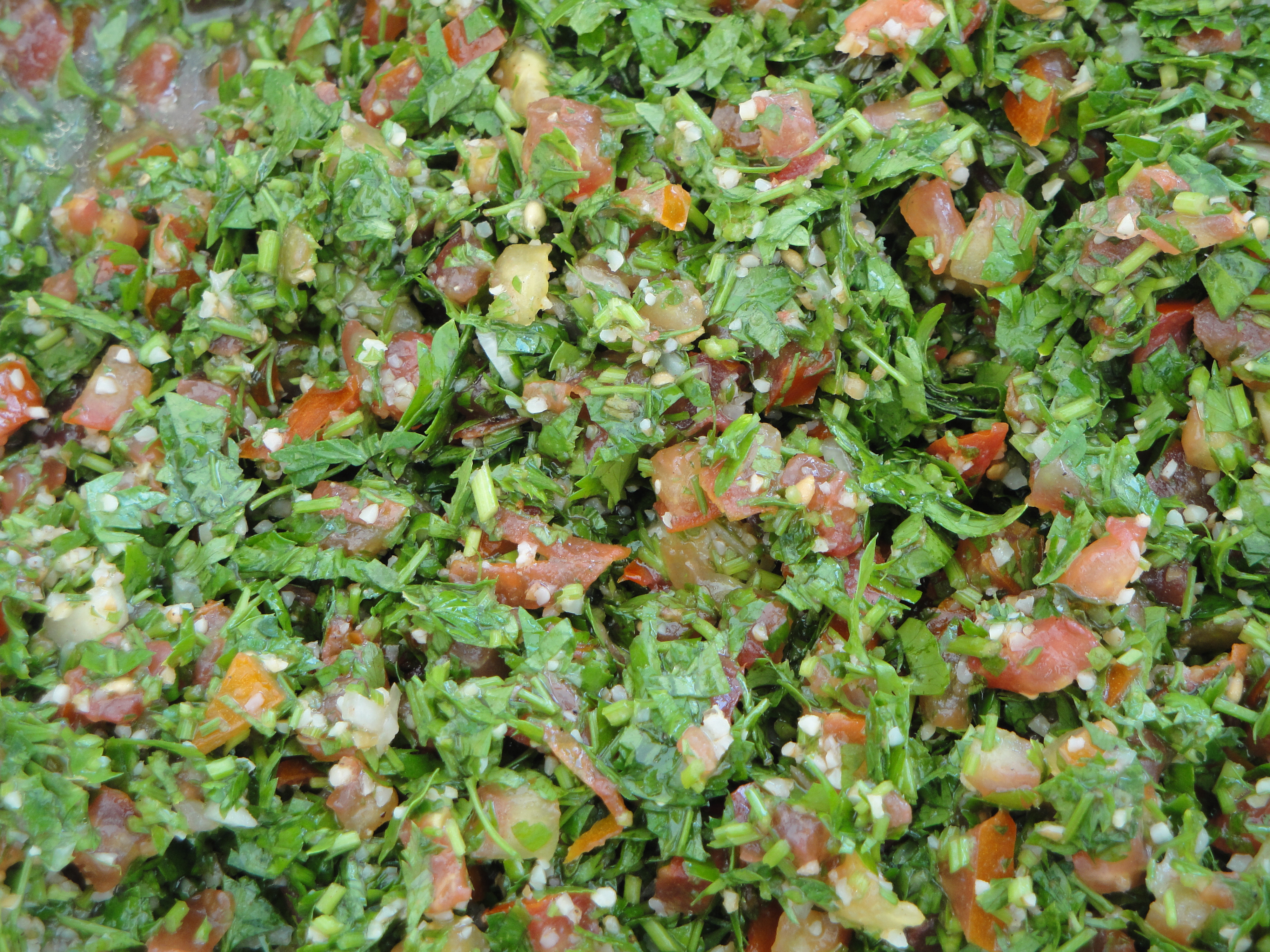 Photo of Tabbouleh, taken in Downtown Beirut during the National Tabbouleh Day 2010